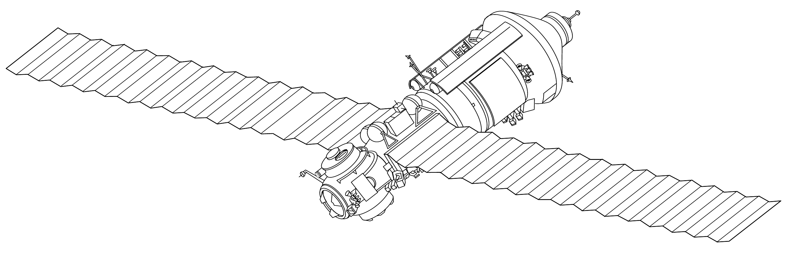 The Kristall module of the Soviet/Russian space station Mir, which joined the station in 1990 and carried two APAS-89 docking units (visible on the left).